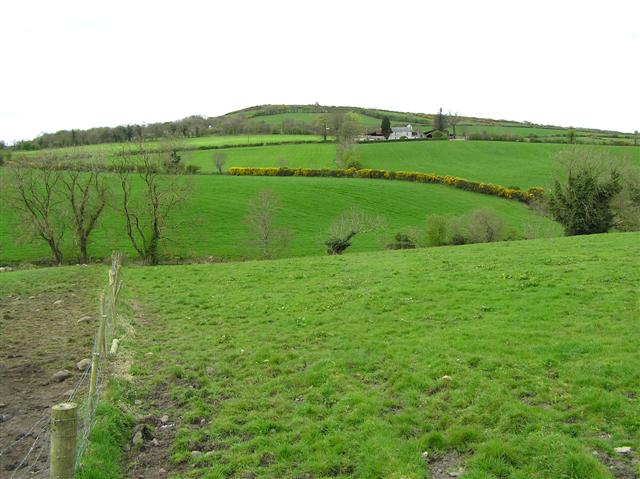 Freughlough Townland. Looking towards Barley Hill.